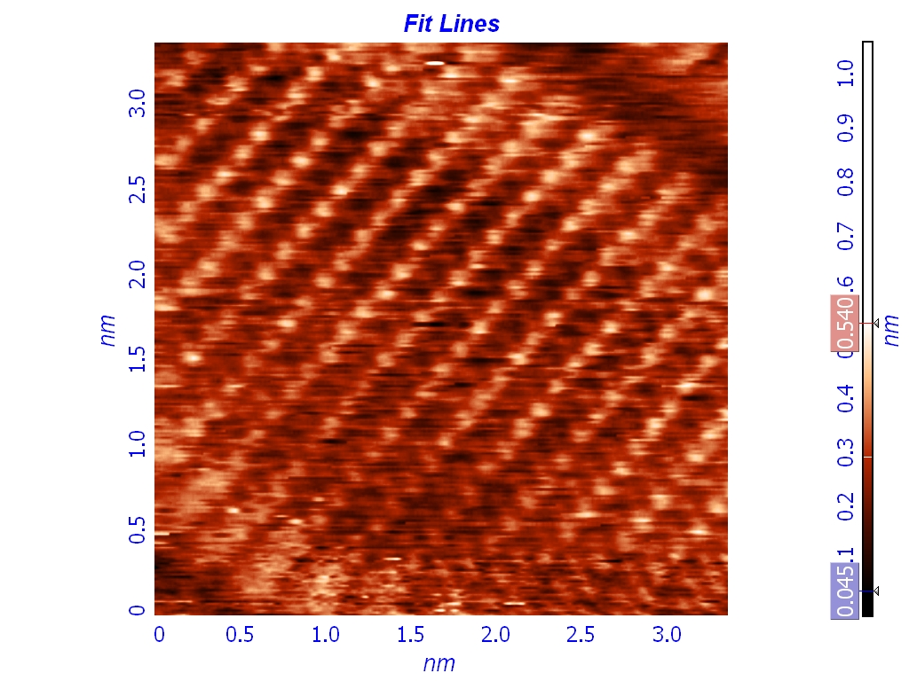 STM-image of well-ordered close-packed lamella-like structure of monolayer of n-alkane (C46H94) adsorbed on n-tetradecane/graphite interface. Scanning area 12.25 sq.nm. The STM-image of the molecules consist of rows of light spots. Each spot reveals the enhance electron tunneling through every second CH2–group.